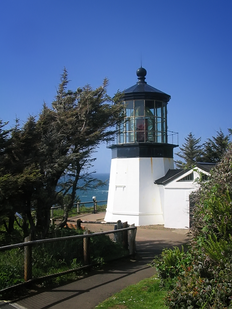 The Cape Meares Lighthouse was constructed in 1890, just south of Tillamook Bay in Oregon. The stubby, octagonal tower is only 38 feet tall, but sits on the edge of a towering 200 ft. cliff above the ocean.